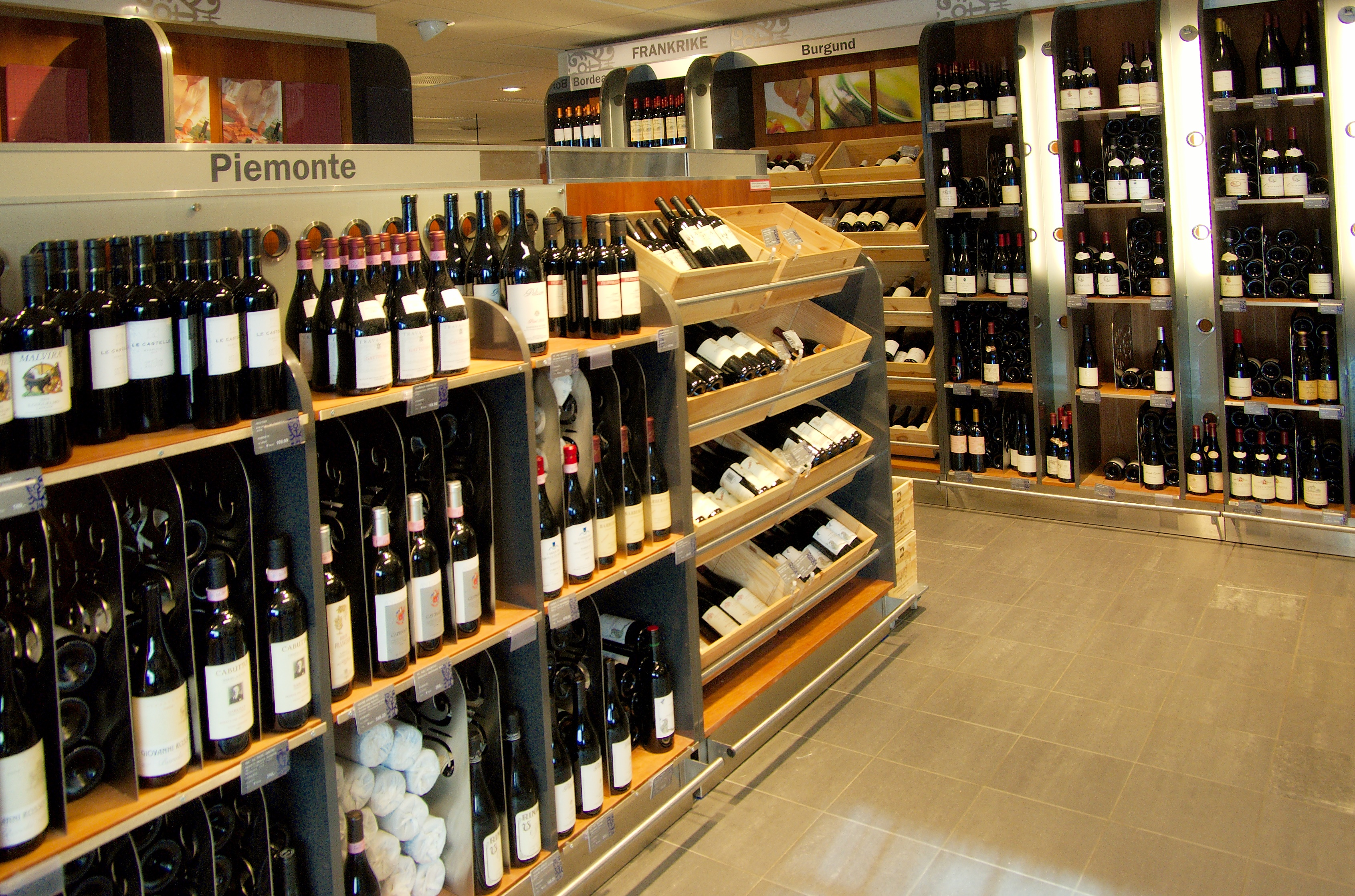 Vinmonopolet. Briskeby, Oslo, Norway See above